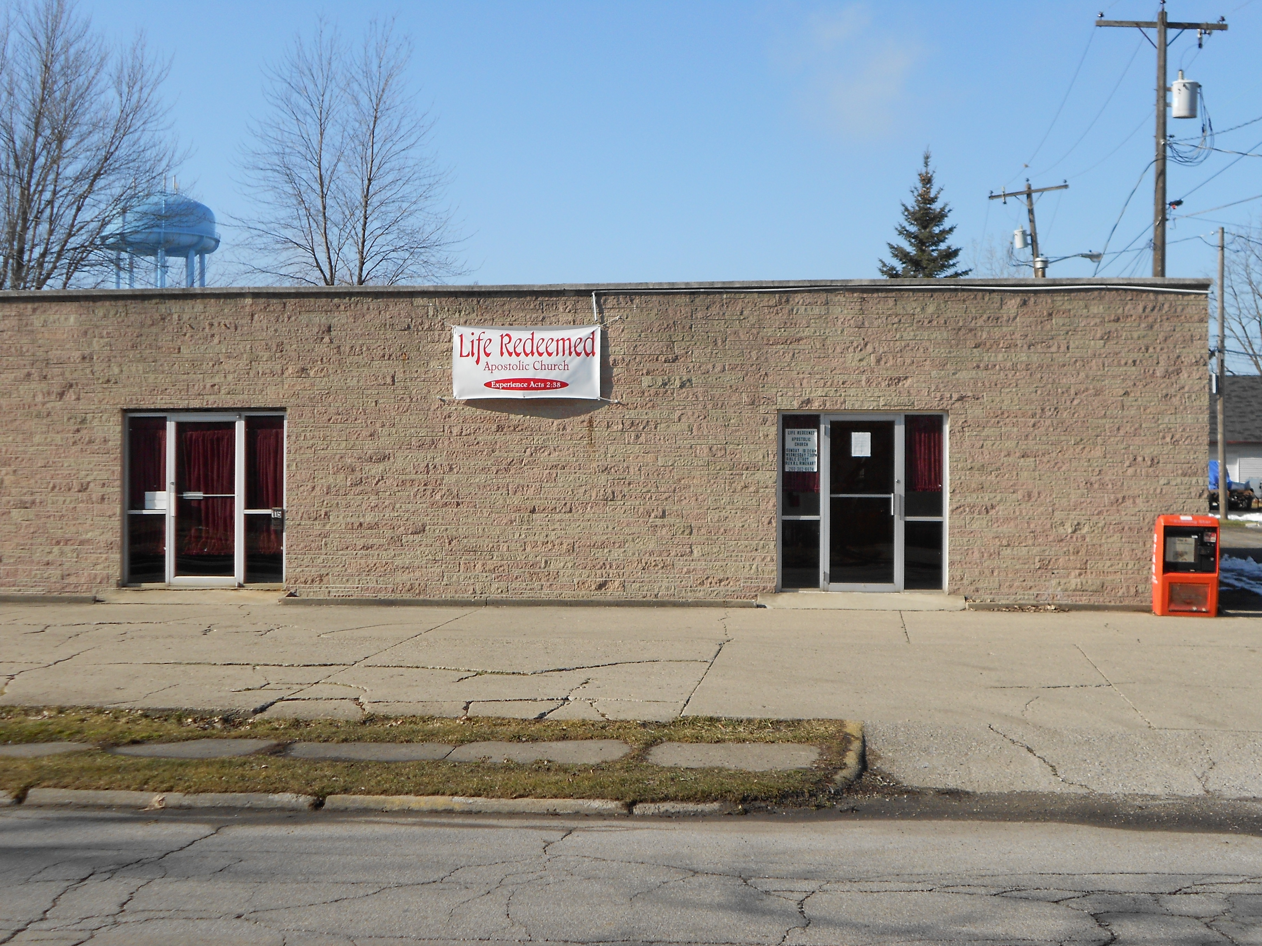 This is a photo of the Life Redeemed Apostolic Church at 115 South Indiana Avenue, Auburn, Indiana, USA, taken February 5, 2012. It is an example of a "storefront" church, located in a commercial building that was once a small supermarket.